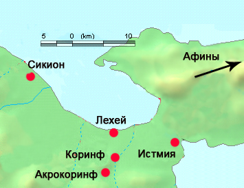 Isthmus